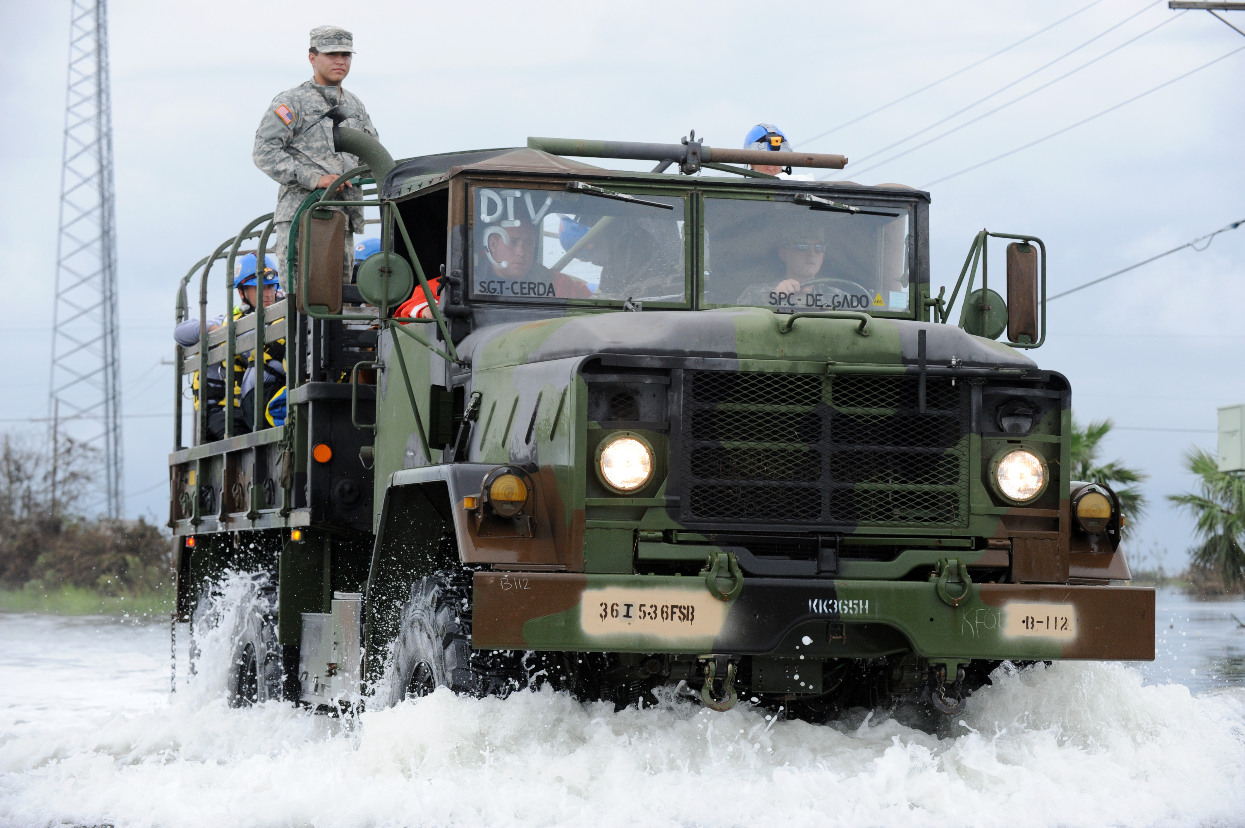 Sabine Pass, TX, September 14, 2008 -- Members of the FEMA Urban Search and Rescue team ride in an army truck to the impact zone. USAR teams are assisted by the military on their missions into neighborhoods impacted by Hurricane Ike to search for people needing help getting out of the area. Jocelyn Augustino/FEMA